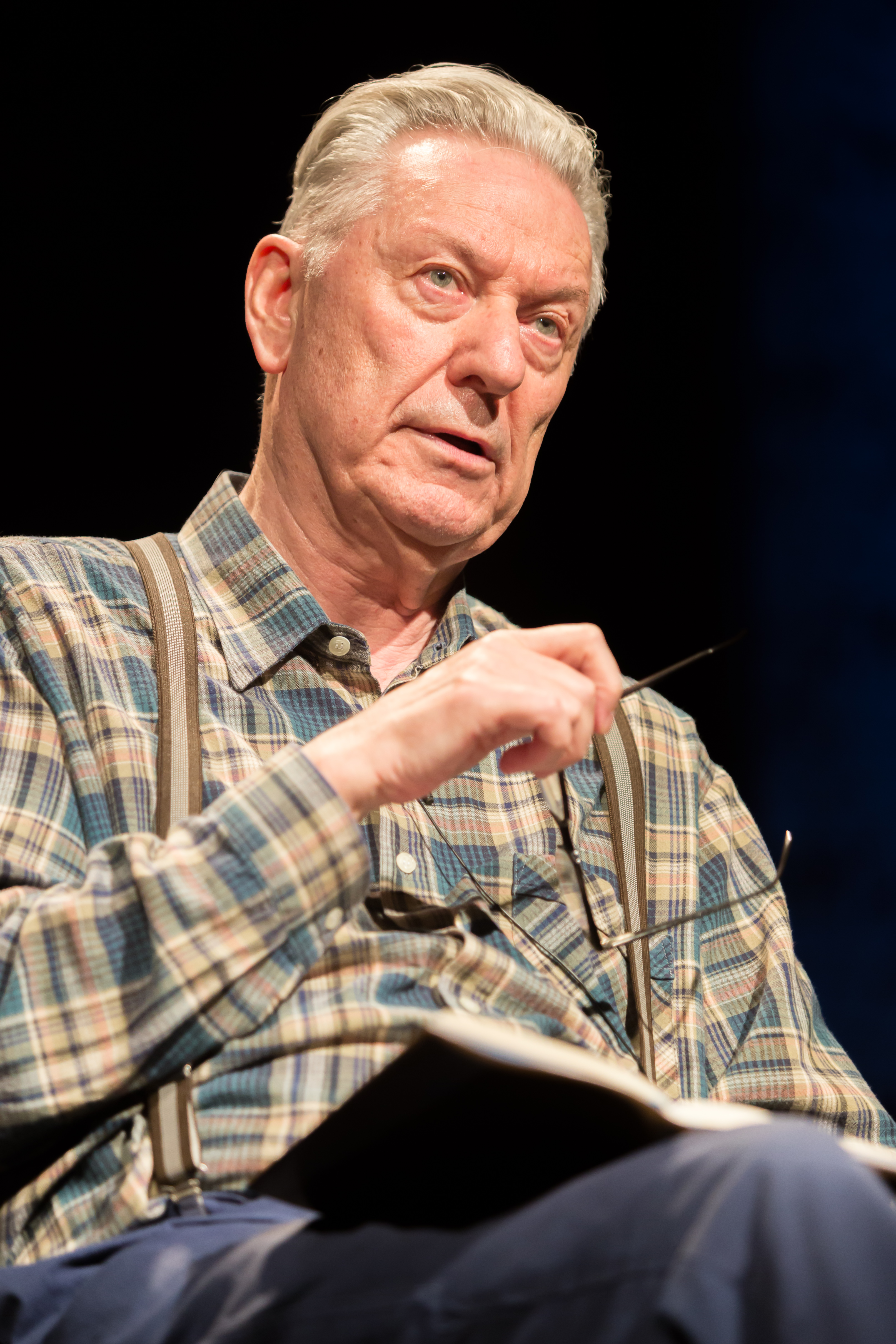 The German cabaret artist and writer Gerd Dudenhöffer on stage with his program Gerd Dudenhöffer als Heinz Becker – Die Welt rückt näher at Pantheon-Theater, Bonn.